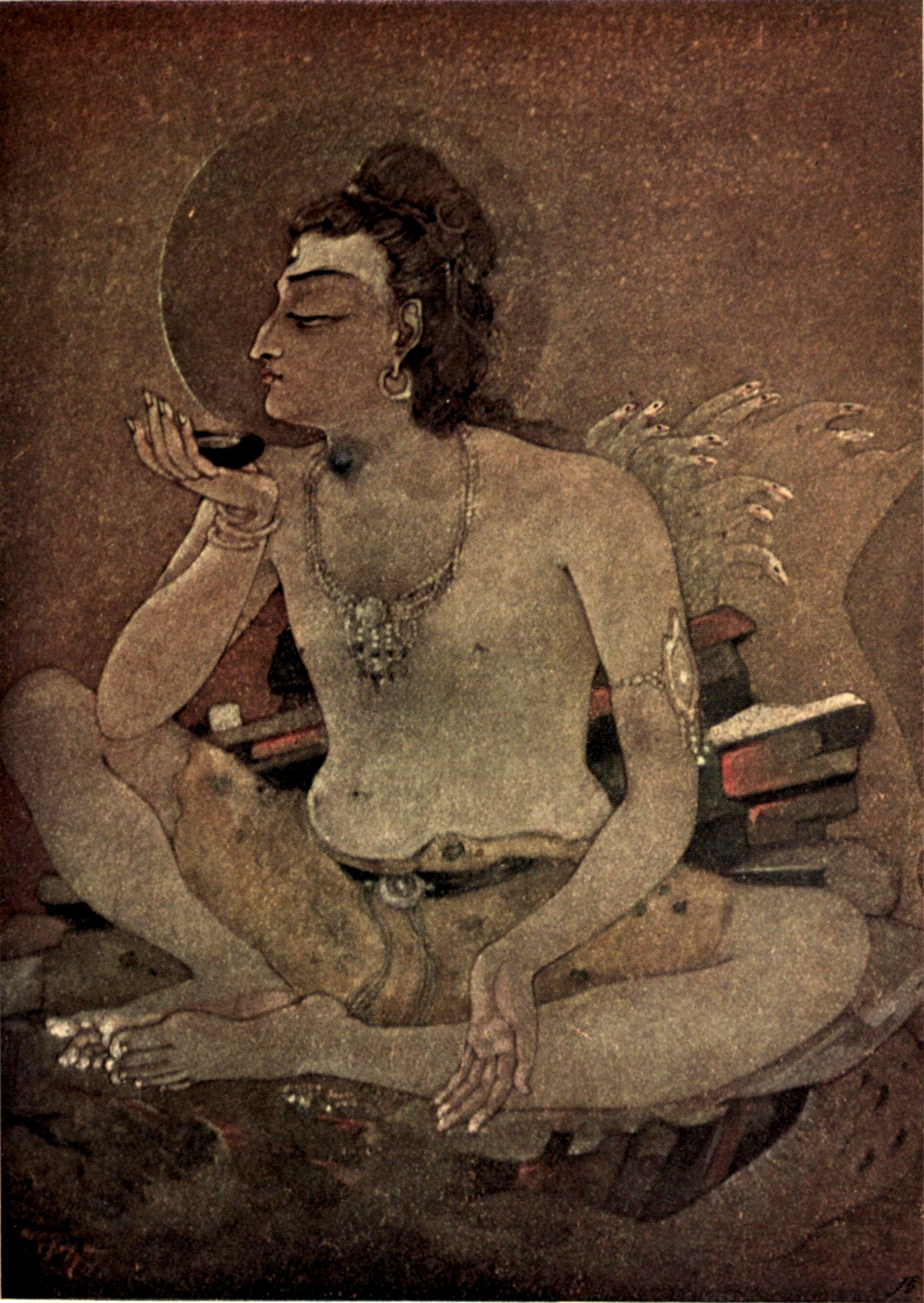 Shiva drinking the World-Poison